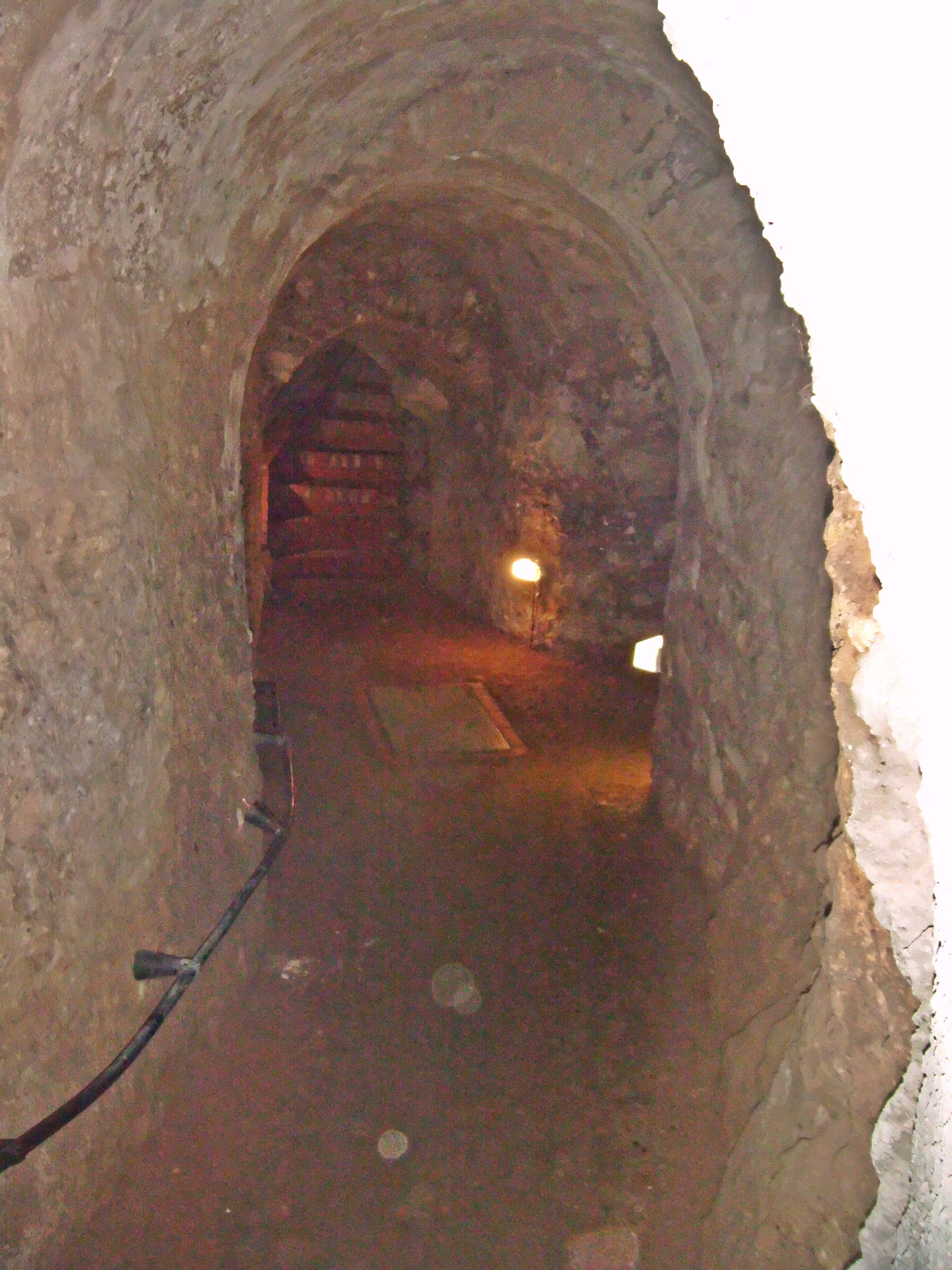 Oppenheimer Kellerlabyrinth